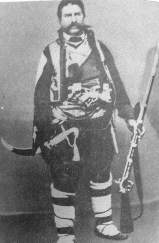 Portrait of Panayot Hitov, bulgarian voevoda and national revolutionary (1830-1918)